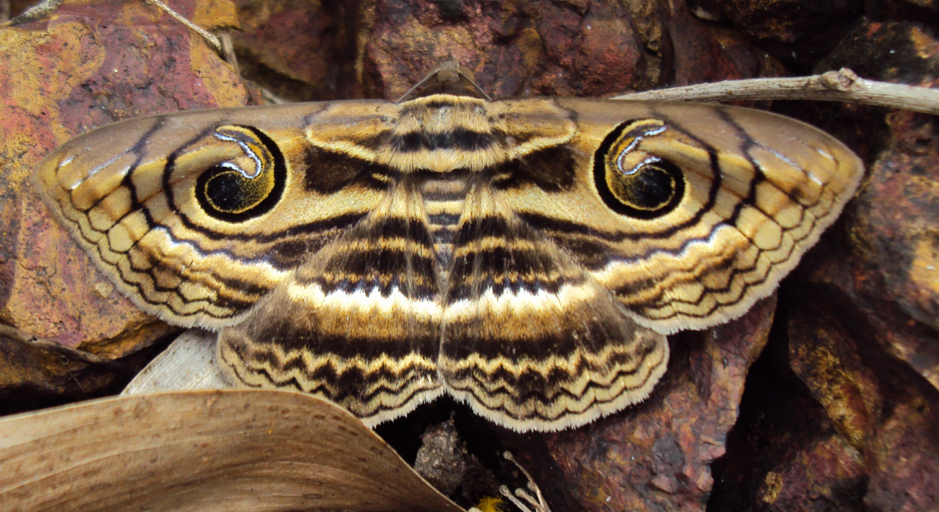 Spirama retorta